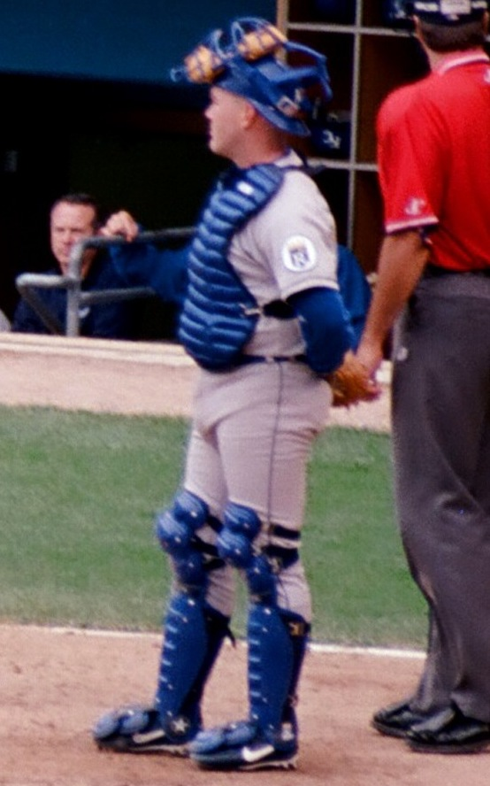 Ozzie Guillen takes his last at bat as a Chicago White Sox player, 1997